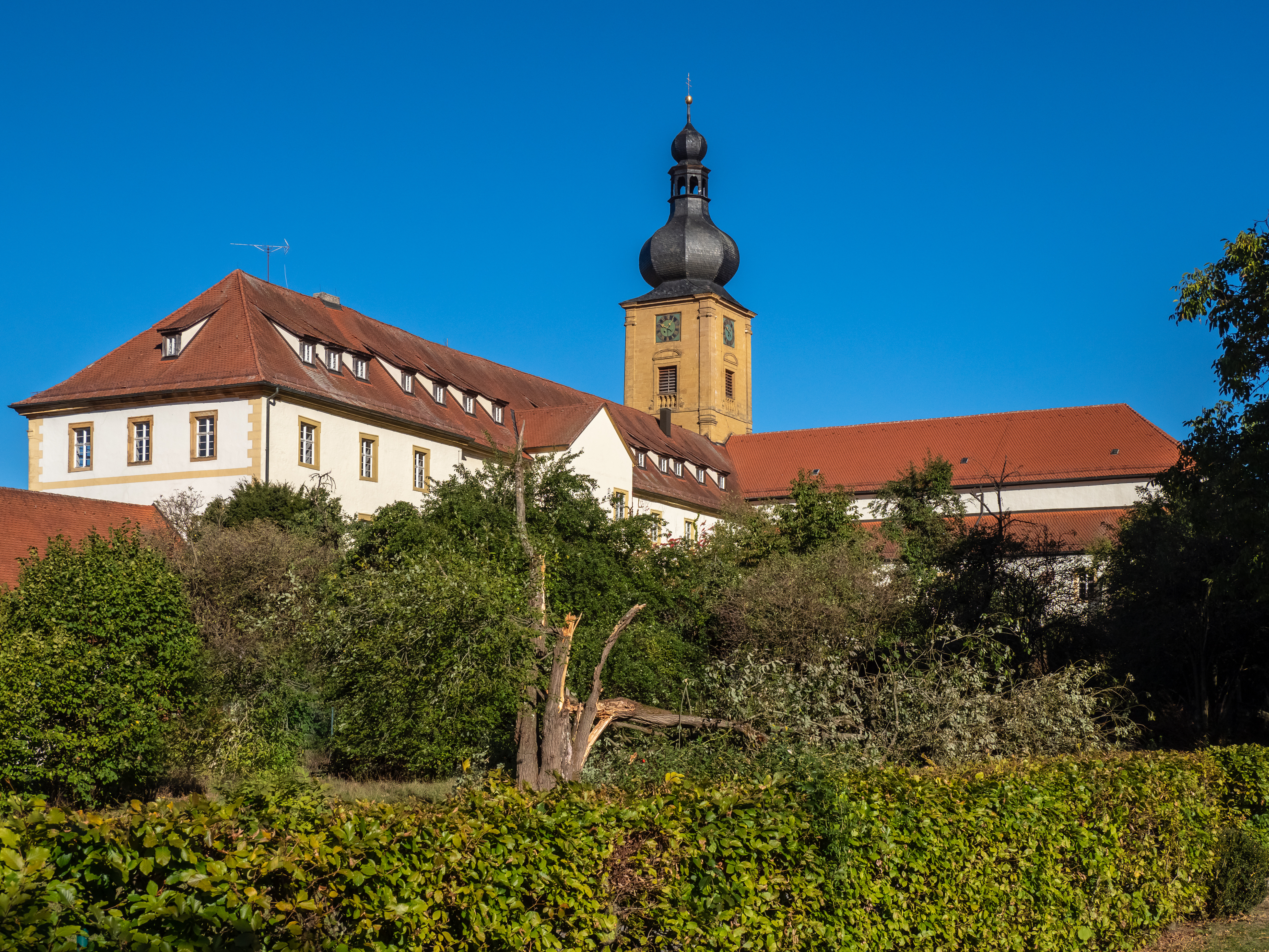 View from south to the monastery Weißenohe